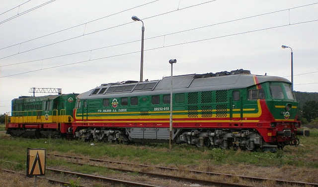 Diesel locomotives T448p and BR232-010 standing alone in Gdynia Rzeźnia siding.